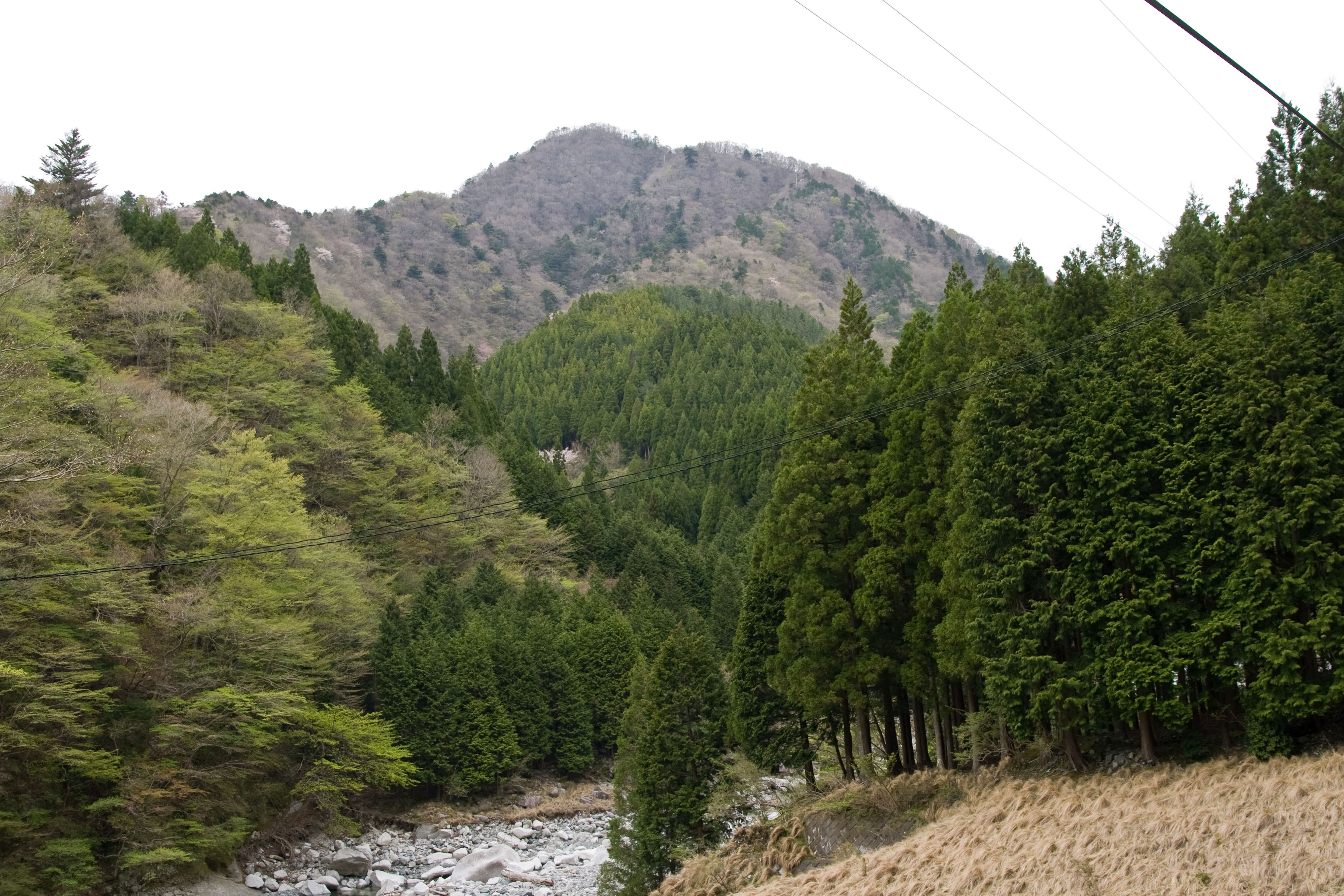 Mt.Oishi in Tanzawa Mountains, Kanagawa Pref., Japan.